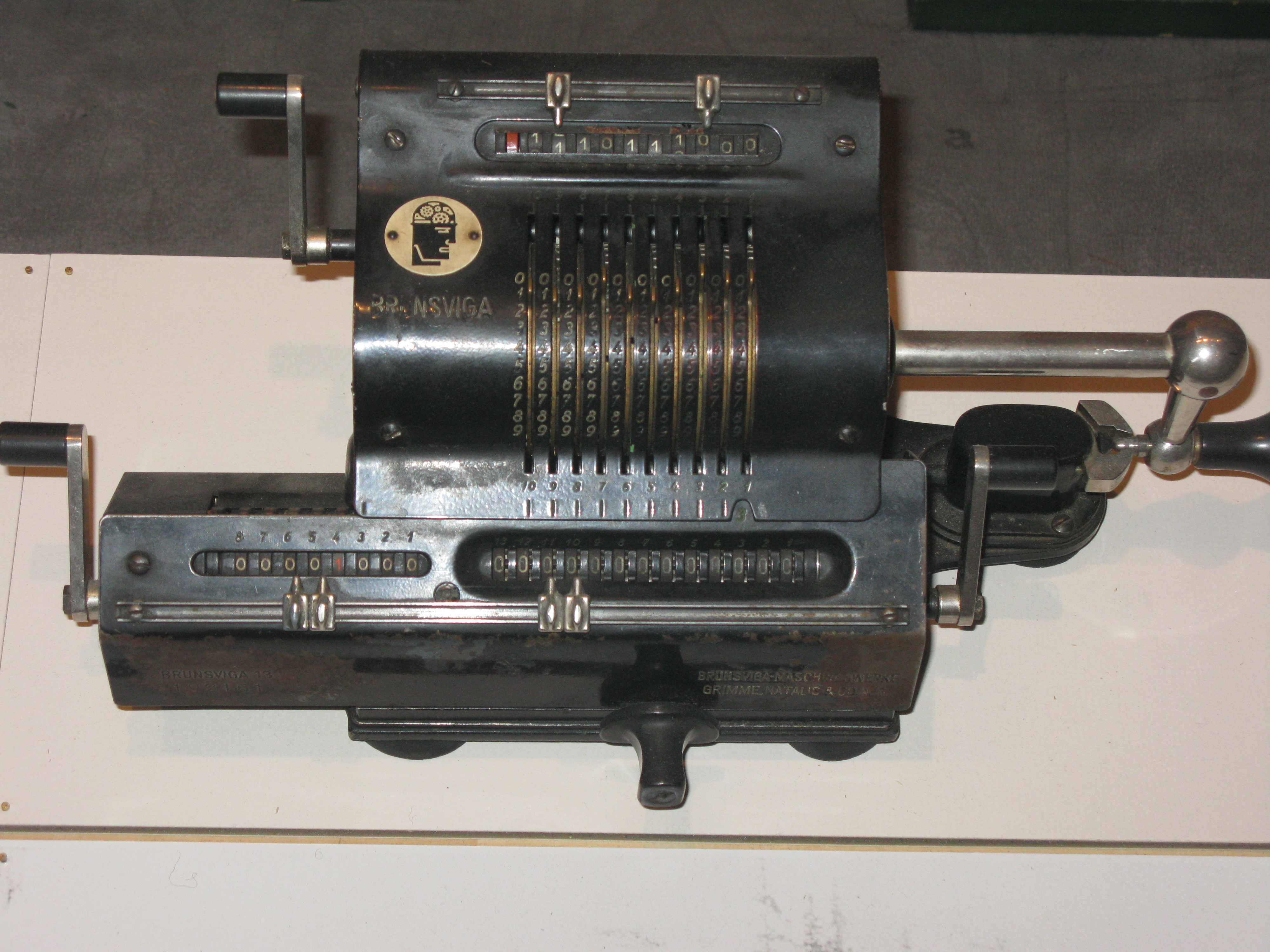 A mechanical calculator, an arithmometer made by the German company Brunsviga, displayed in the exhibition of the forestry museum Lusto in Punkaharju, Finland.